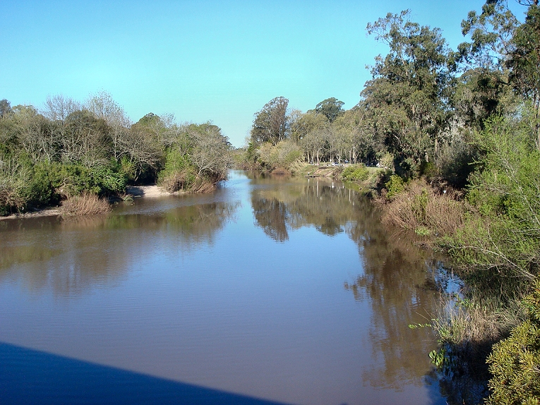 Arroyo Pando seen from the park "Parque Nacional General Artigas" at the northeast end of the city of Pando, in Canelones, Uruguay.